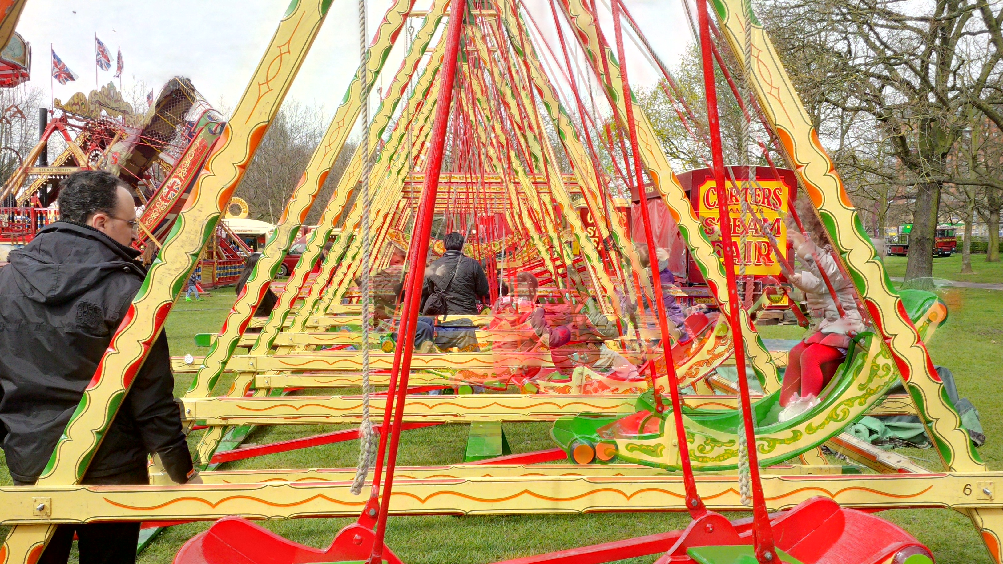 View of smaller sized Swingboats at Carters Steam Fair, Central Park, Chelmsford, 10th April 2016